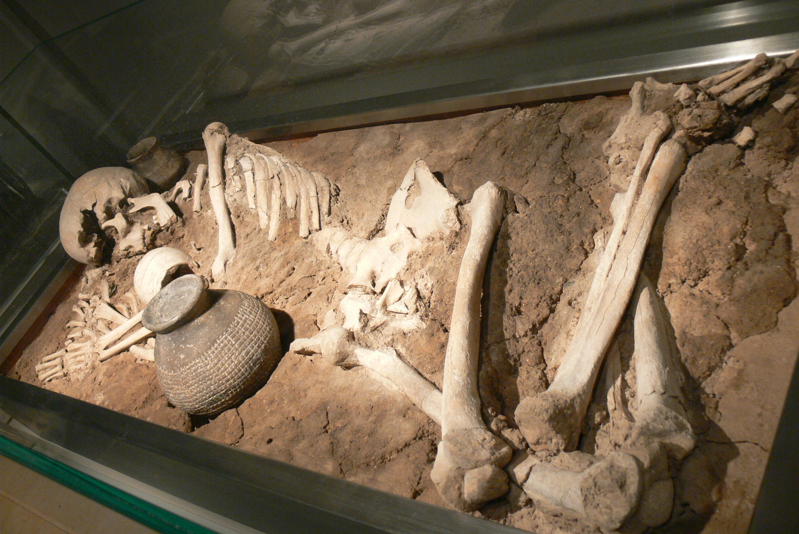 German National Museum (Nuremberg/Germany). Grave with pottery, Rössen culture (4500-4000 BC)/Gatersleben culture (4800-4400 BC), from Rössen (Leuna/Saxony-Anhalt).